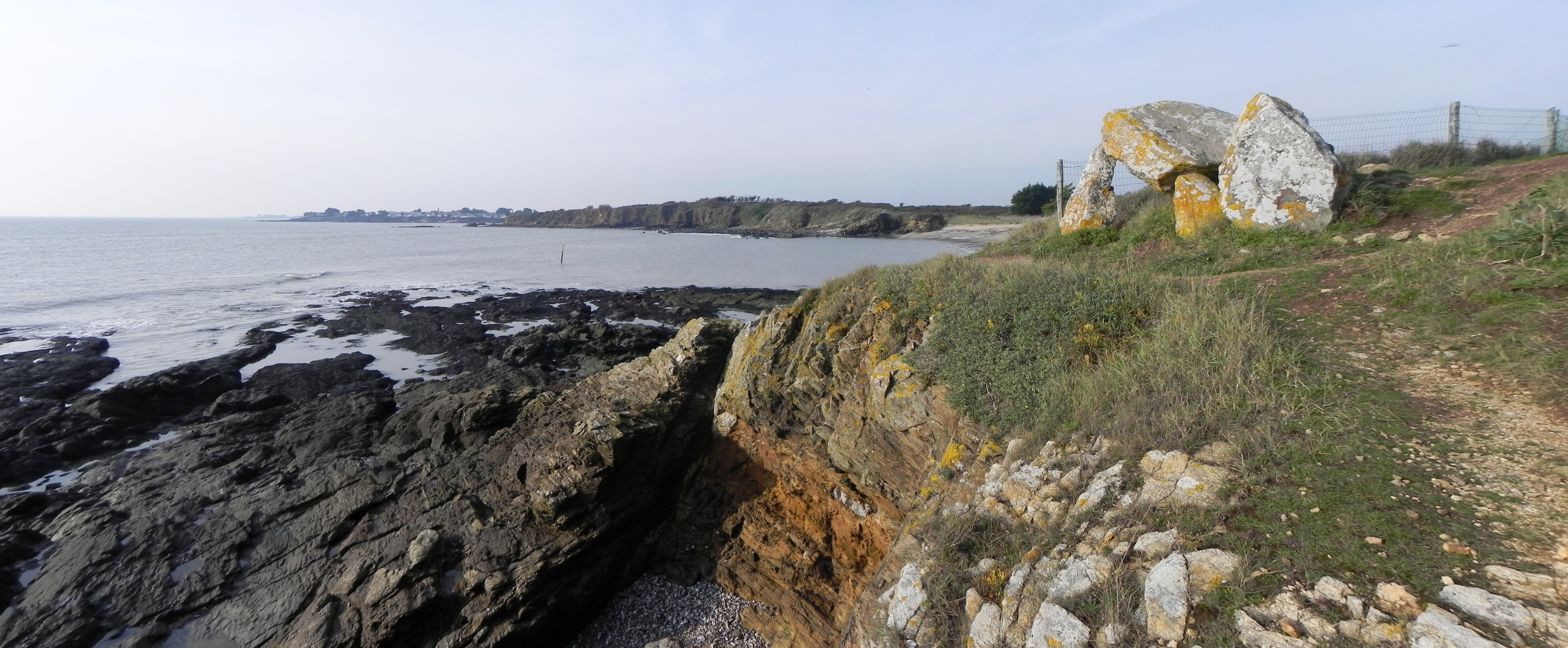 Dolmen du crapaud, Billiers, Loire-Atlantique, France.